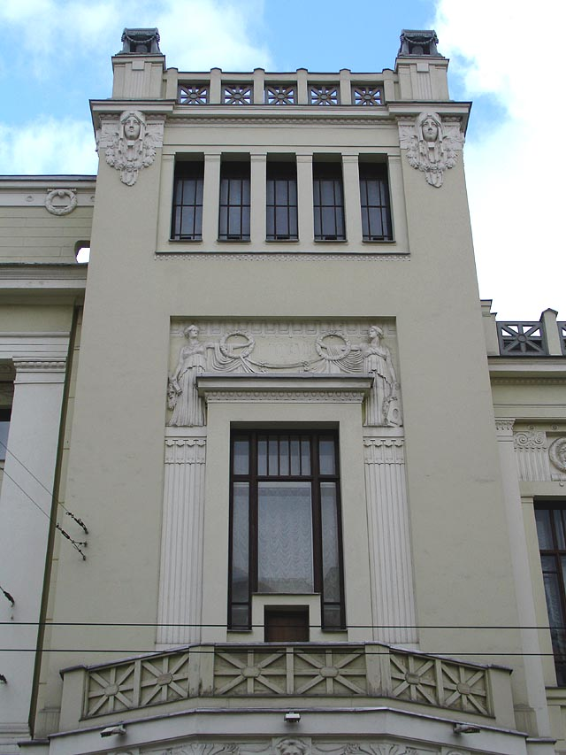 Lenkom Theater, Moscow, Malaya Dmitrovka Street. Built in 1907-1908 as the Merchants' Club by Illarion Ivanov-Shitz.